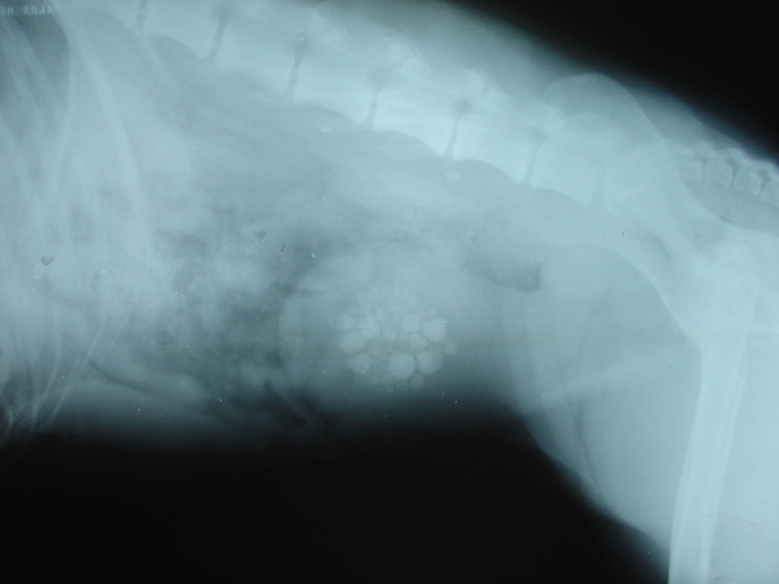 Photo of an x-ray showing bladder stone|s in a dog. Photo taken by Joel Mills on January 17, 2006.